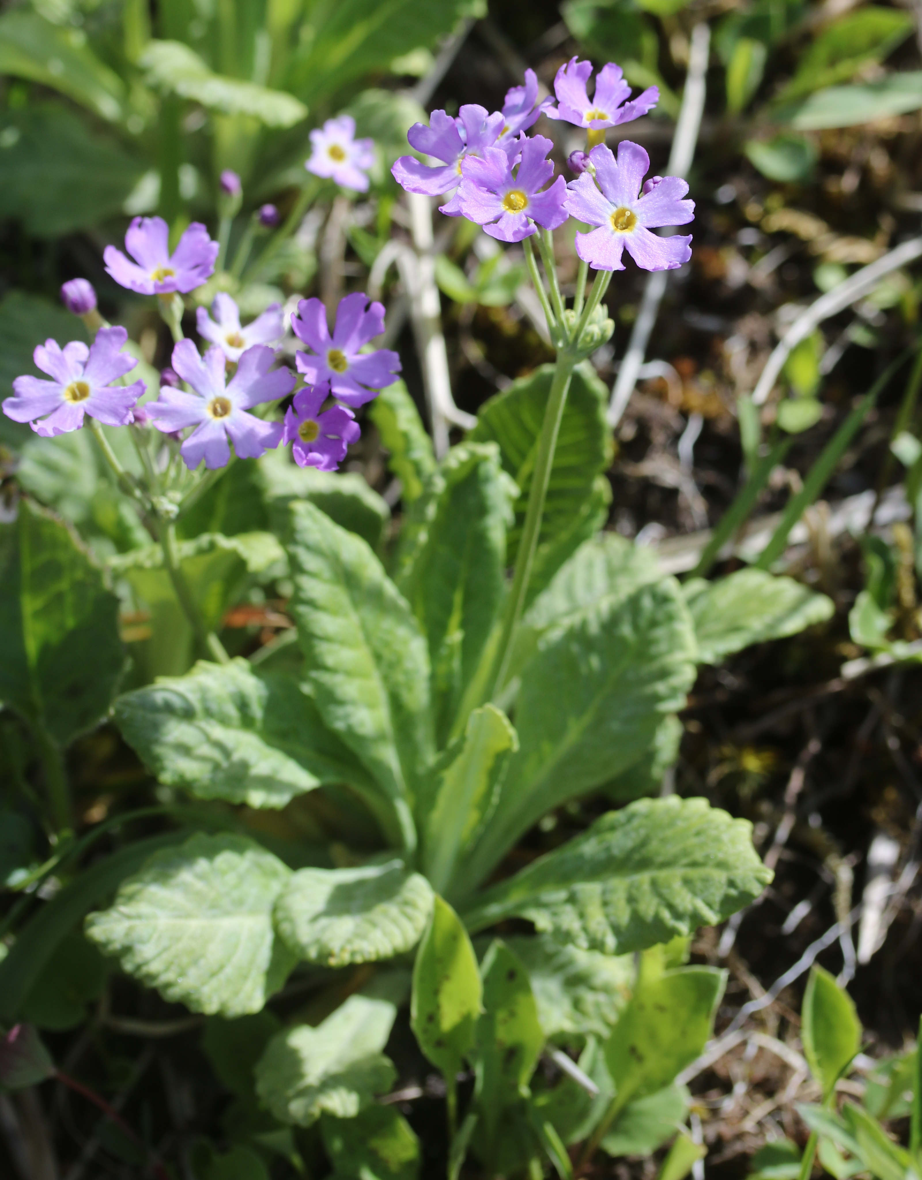 Primula farinosa subsp. modesta in Ryohaku Mountains, Ōno, Fukui prefecture, Japan.